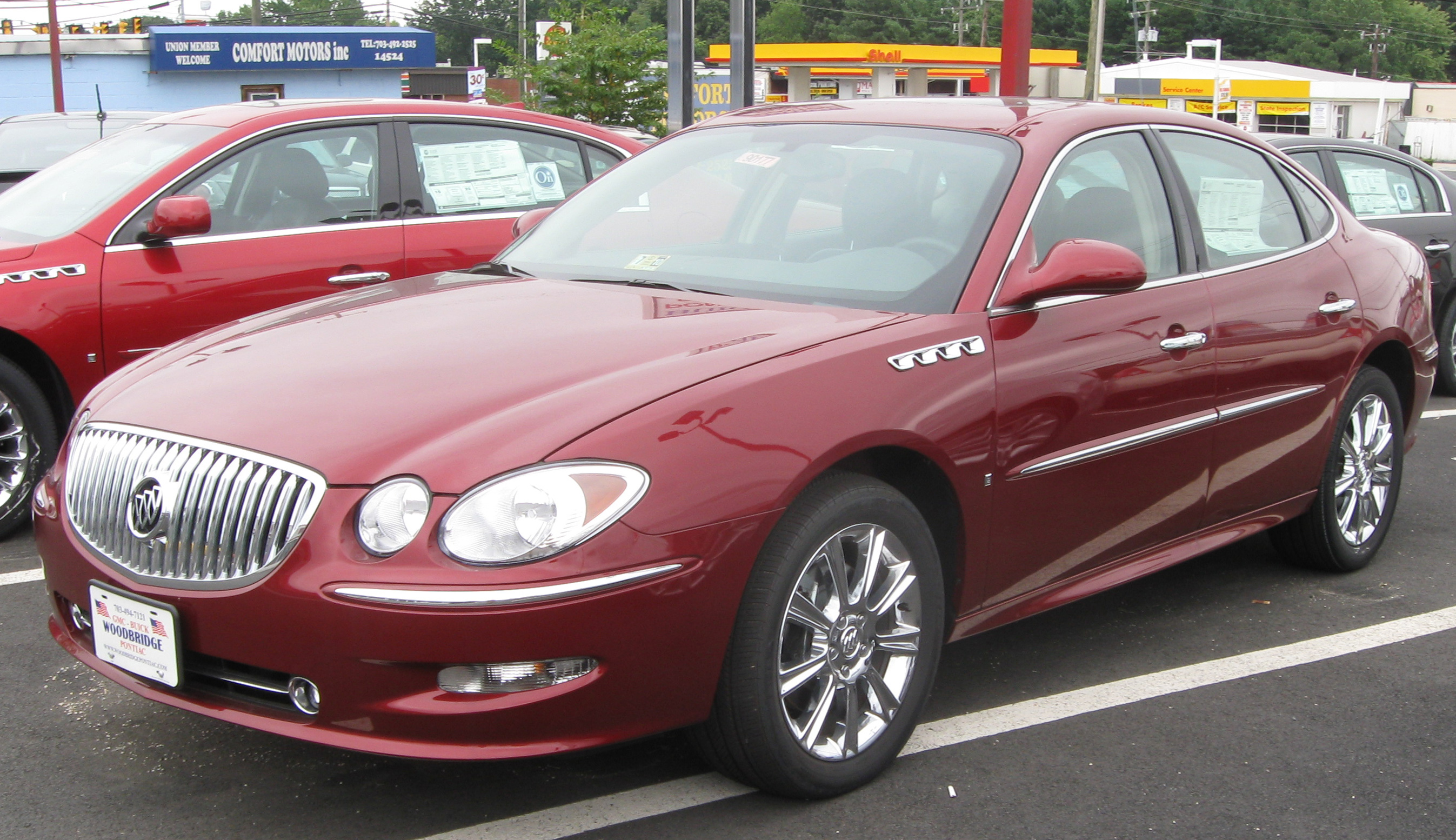 2009 Buick LaCrosse Super photographed in Woodbridge, Virginia, USA.